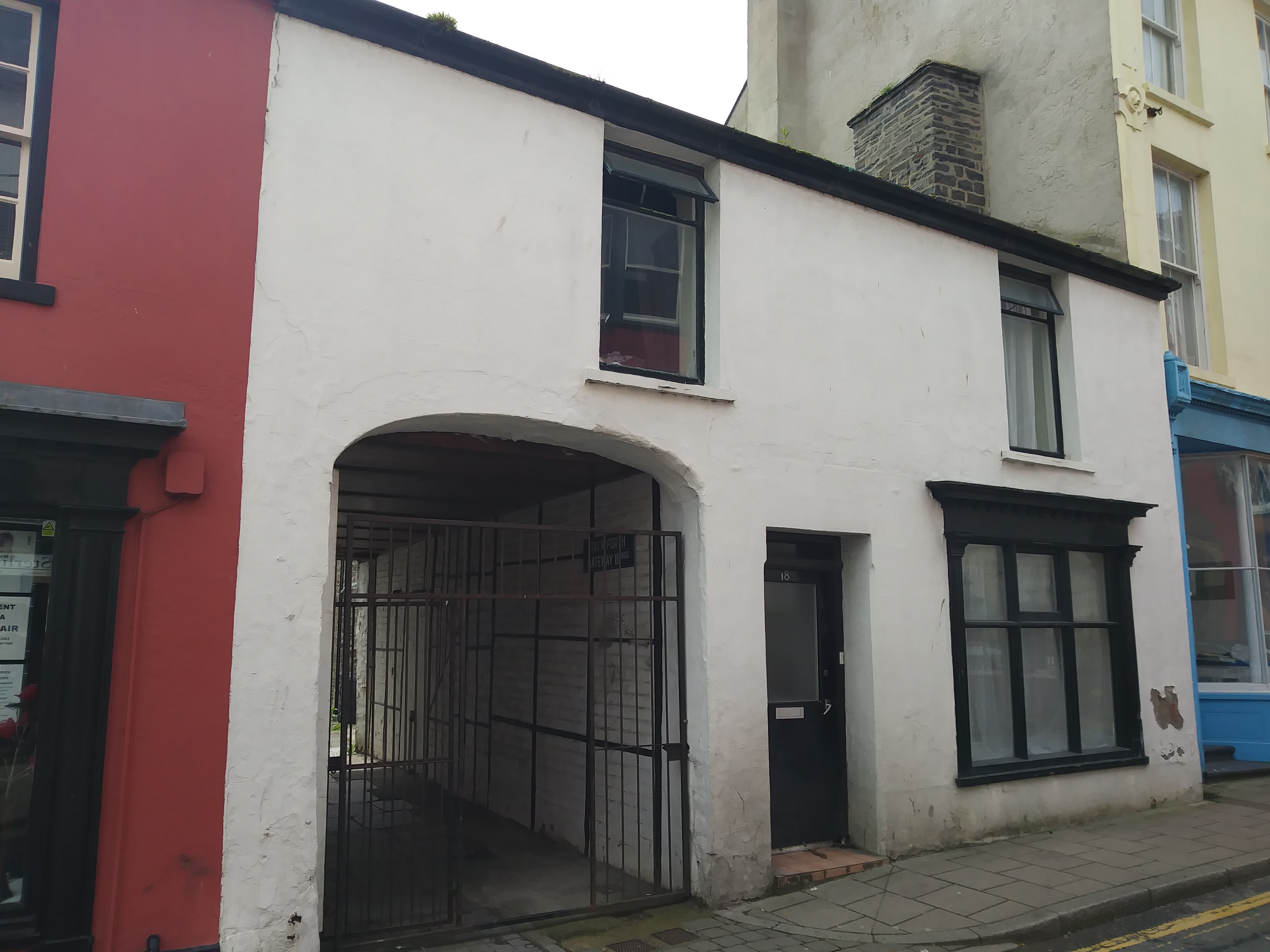 Gateway Buildings, Aberystwyth